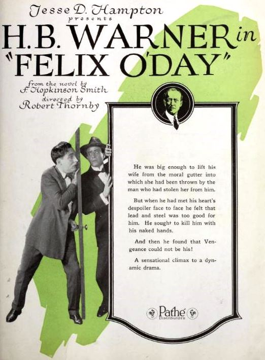 Advertisement for the American drama film Felix O'Day (1920) with an unidentified actor and H.B. Warner, from the insert after page 18 of the September 18, 1920 Exhibitors Herald.